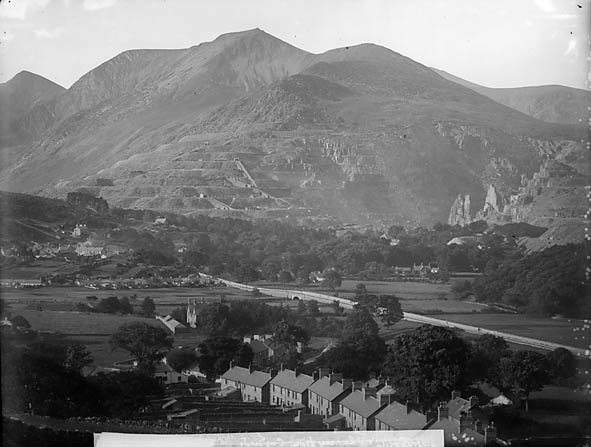 1 negative : glass, dry plate, b&w ; 16.5 x 21.5 cm.